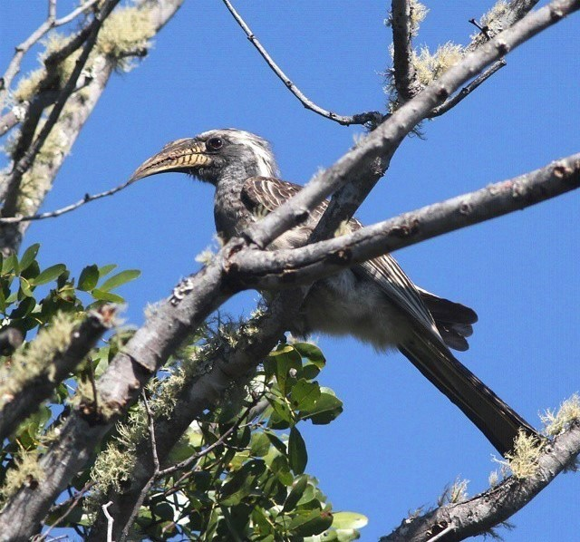 An adult male Pale-billed hornbill at the source of the Cuito river in Angola